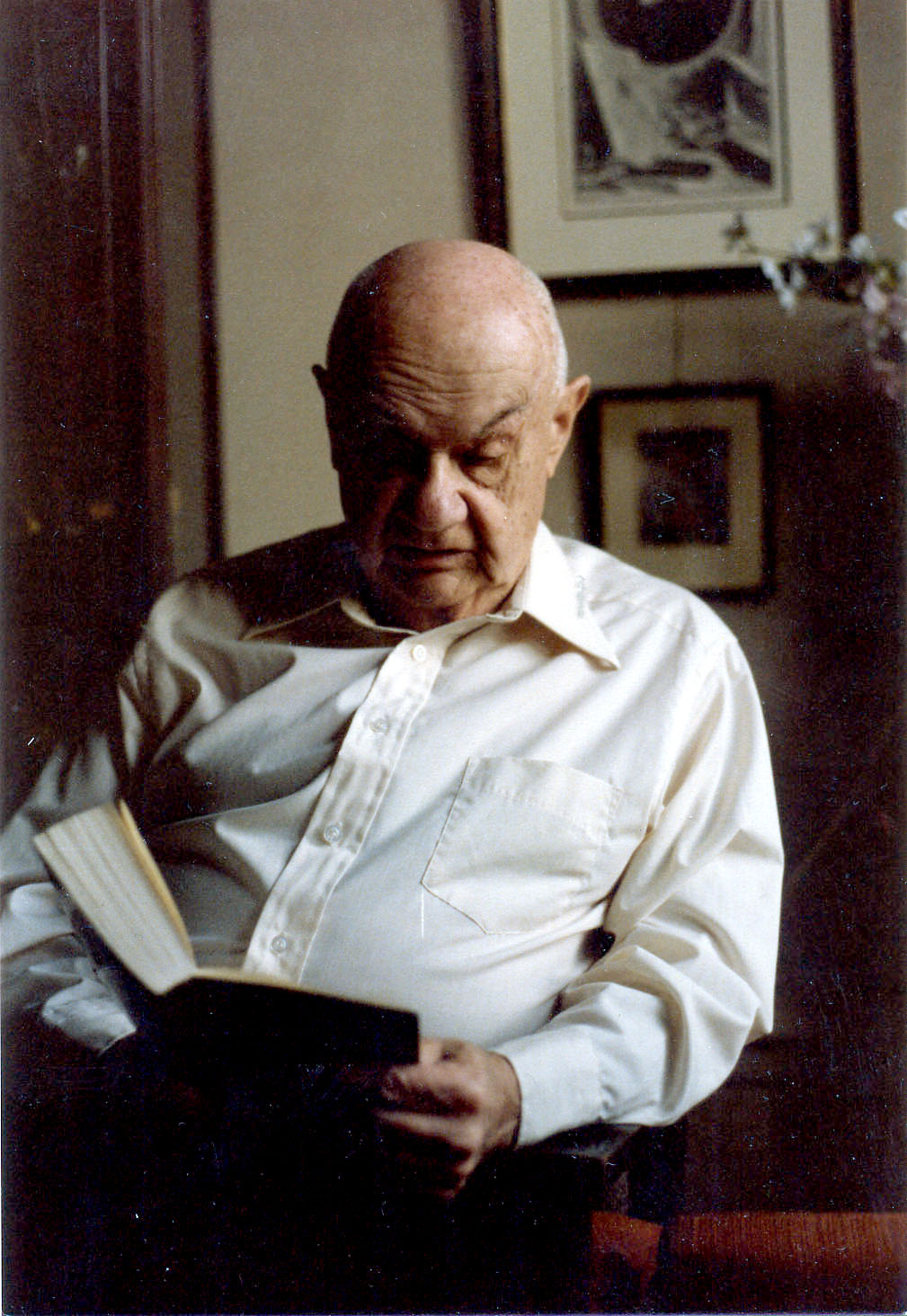 This photo was taken by Rmrfstar's father, a friend of Vishniac's. He had to take a digital photograph of his father's print. This version was scanned properly. (It's actually a different photo, but similar enough). Photo circa 1981.